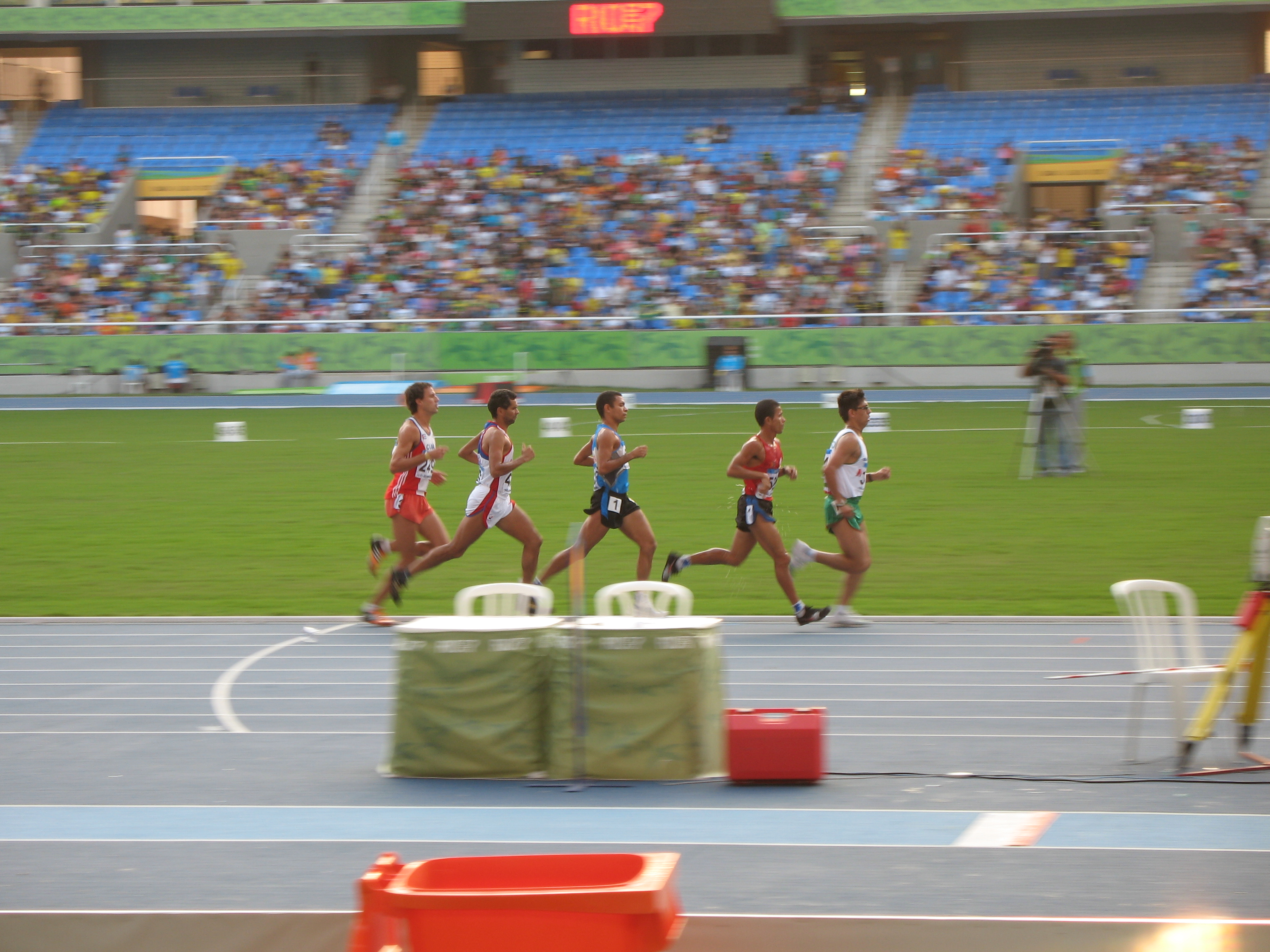 Parapan American Games Rio 2007 - Athletics - Final competition of Men's 5000m T13